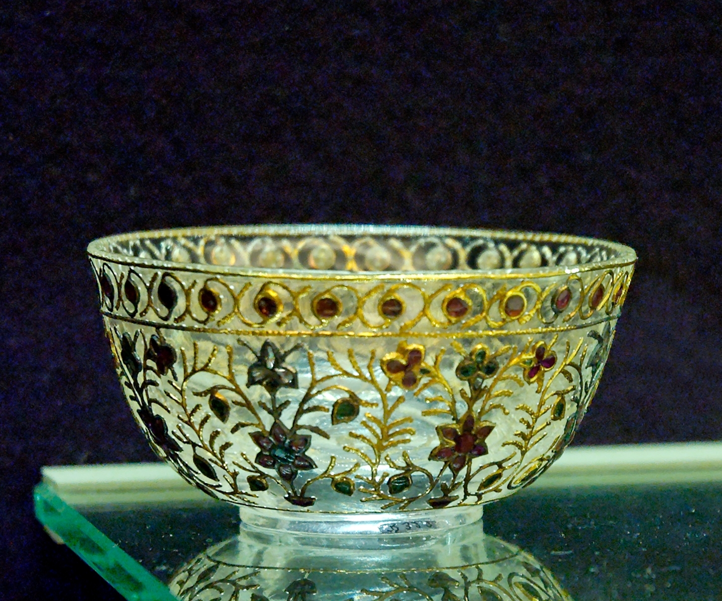 Wine cup, Mughal art from India.